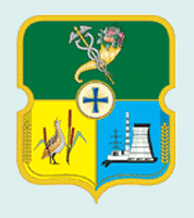 Coats of arms of Dergacivskyj raions